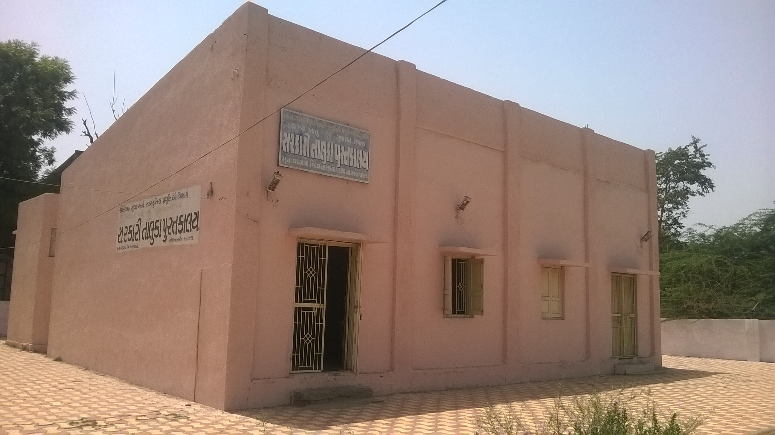 Government Taluka Library in Vadnagar, Gujarat, India established in 1991